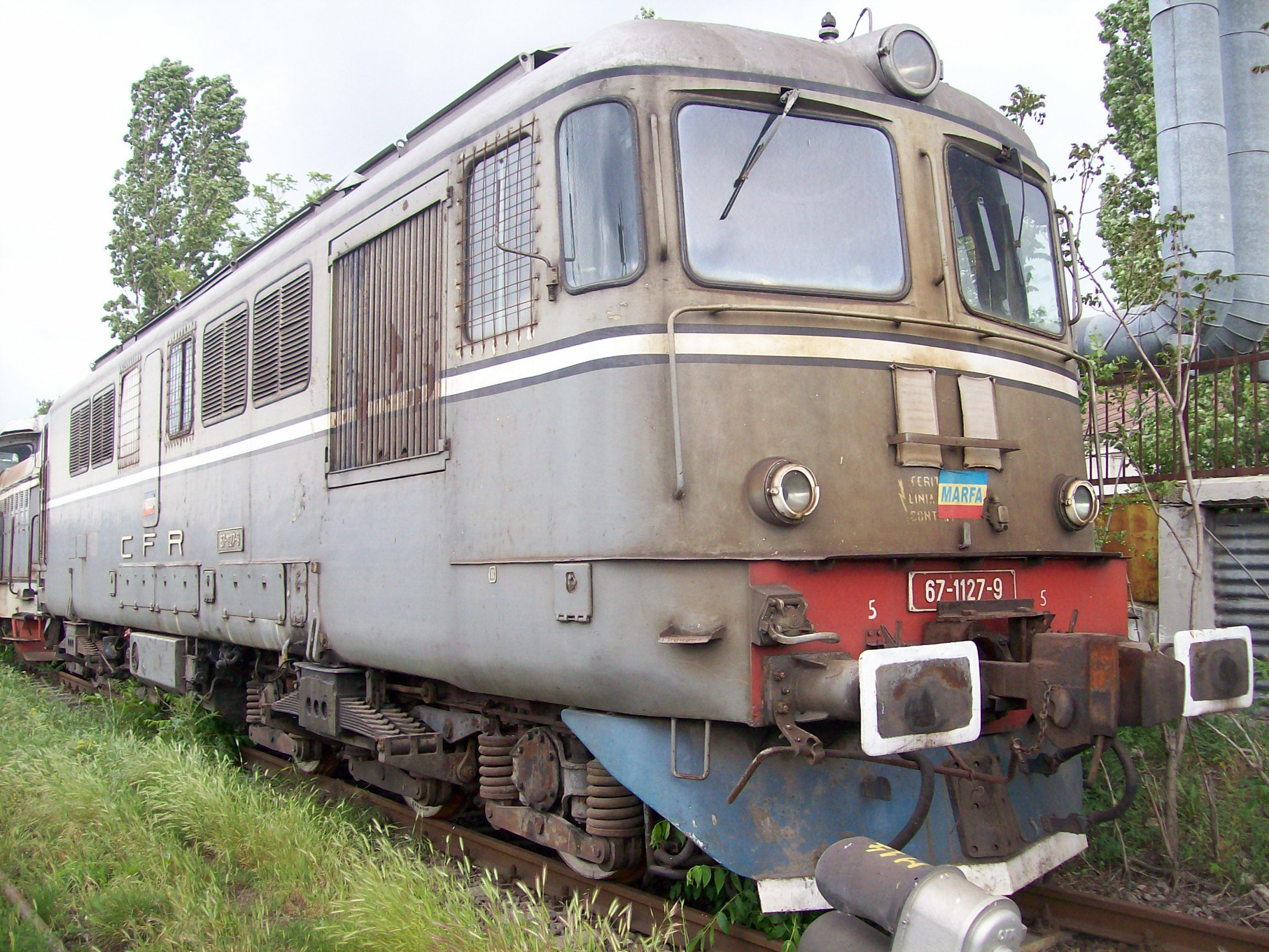 CFR locomotive class 67